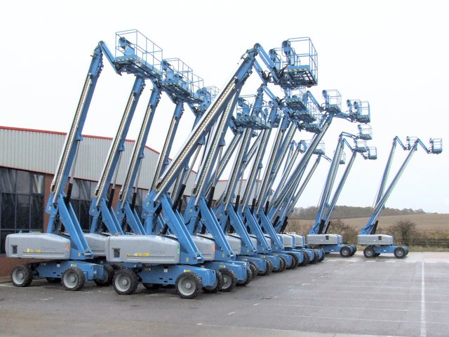 Brunel Drive, Newark A clutch of Genie, DC powered, articulating Z-boom access platforms.